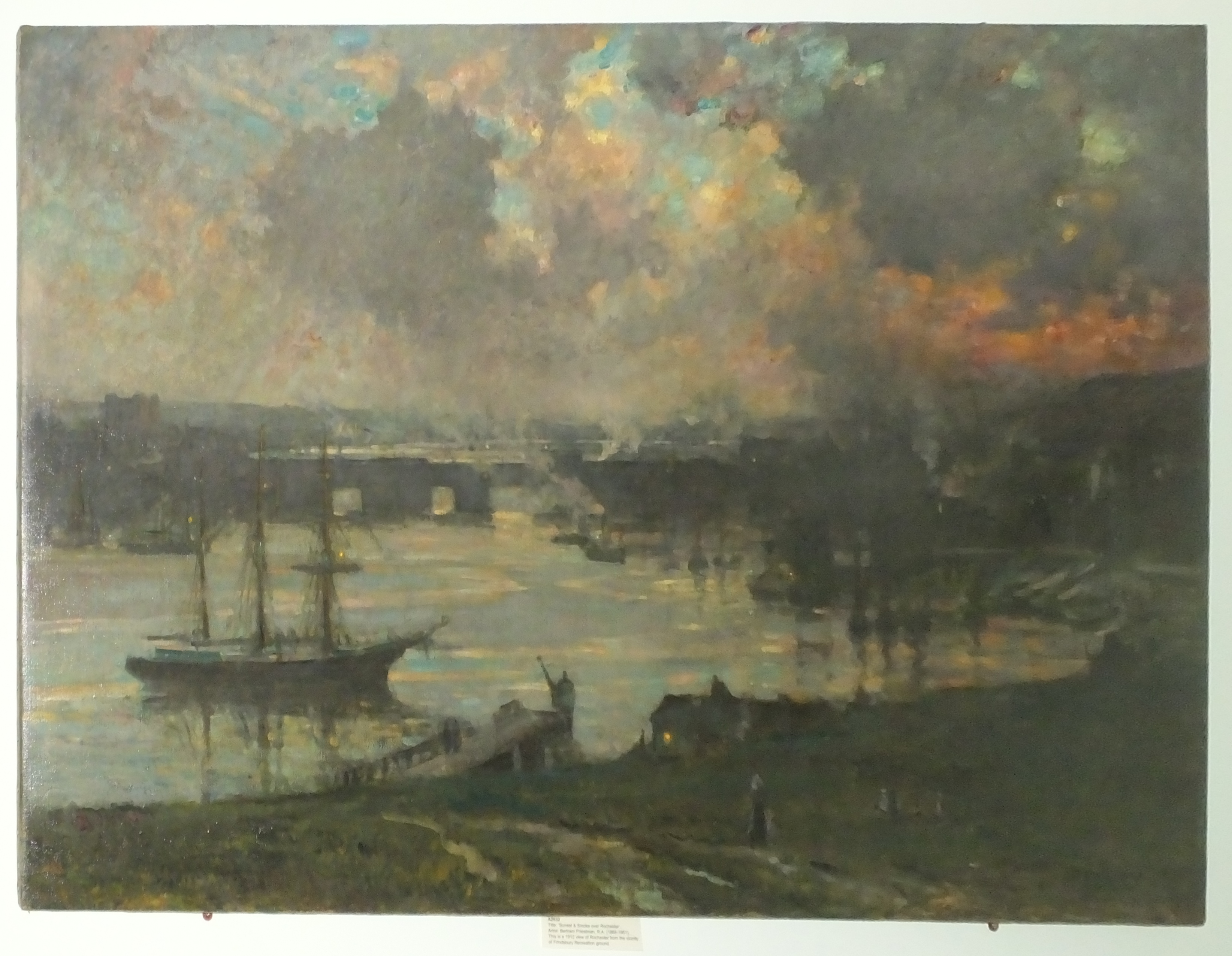 Paintings from the collection of the Guildhall Museum in Rochester, Kent. Sunset and smoke over Rochester Bertram Priestman 1912, painrted from Frindsbury Recreation Ground or just below it.